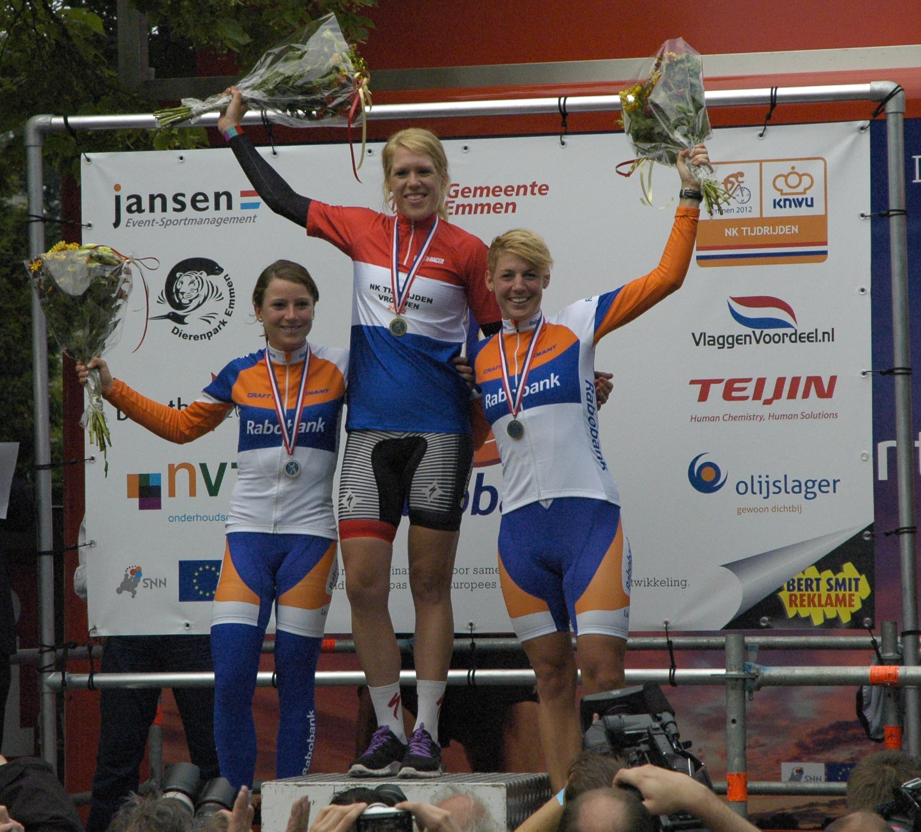 Ellen van Dijk, Annemiek van Vleuten and Iris Slappendel on the podium at the 2012 Duch National Time Trial Championships in Emmen (elite women's), Dutch national jersey